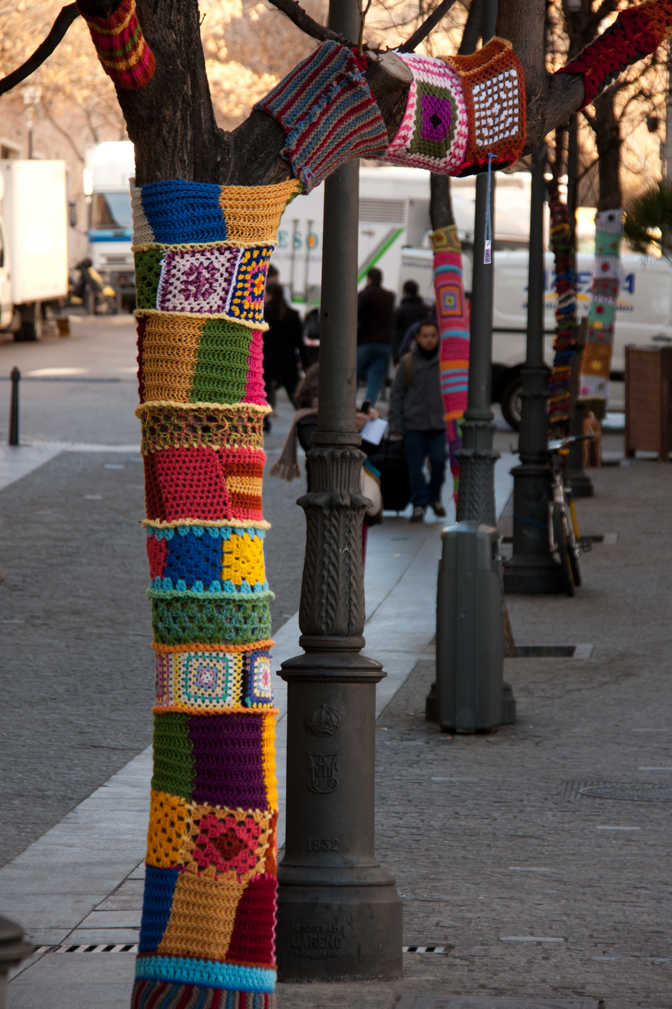 Arboles en la calle santa Isabel, junto al Museo Reina Sofia